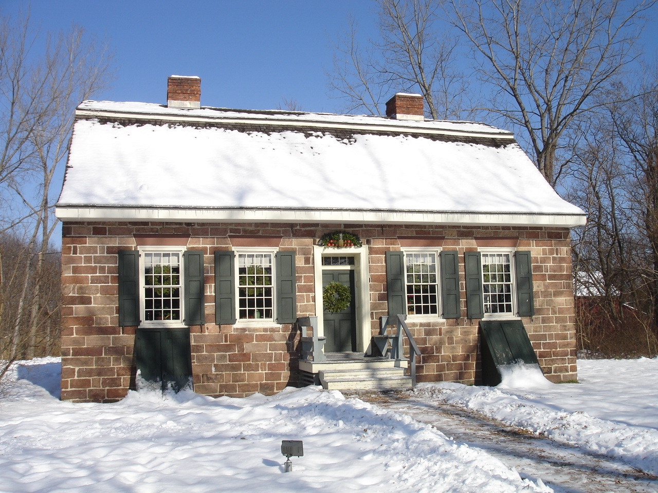 I took this photo of the Campbell-Christie House myself on December 22, 2008.